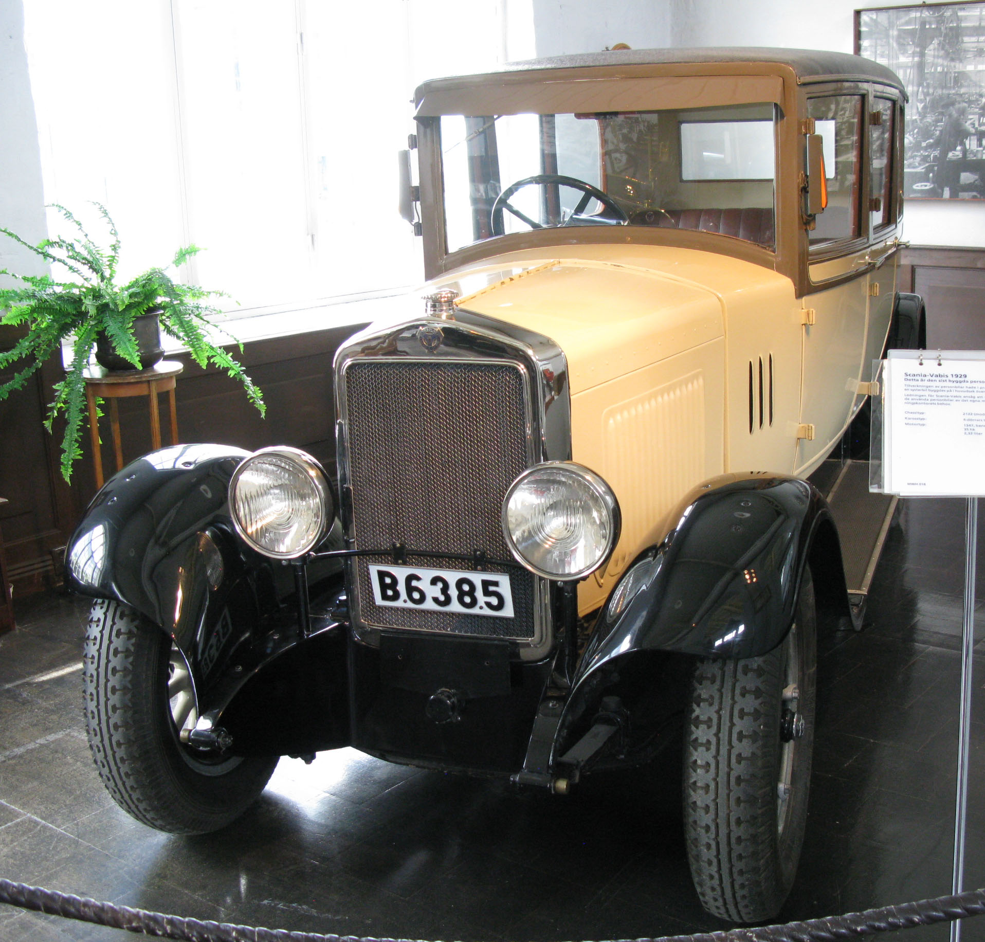 1929 Scania-Vabis 2122. Location: Scania Museum in Södertälje, Sweden.Last automobile bulit by Scania-Vabis.